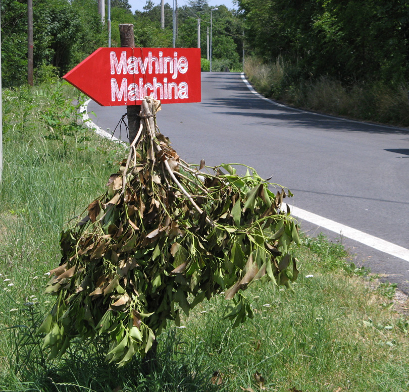 Branch signal for country wine on the Kras Plateau (Trieste, Italy)